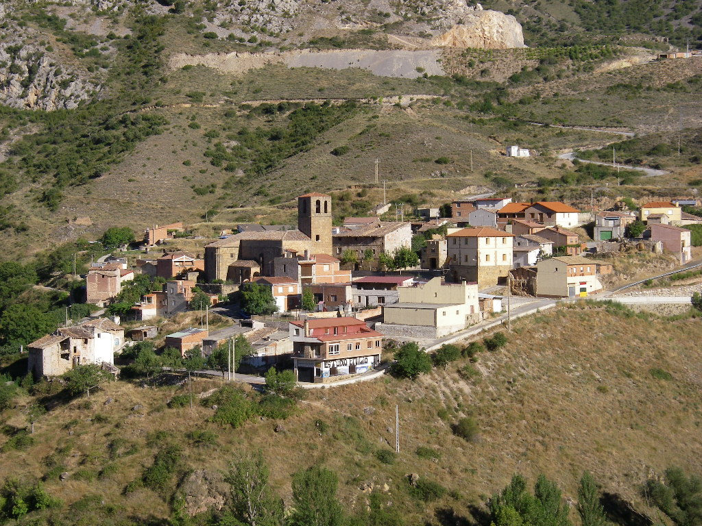 View of Leza de Río Leza (La Rioja, Spain).